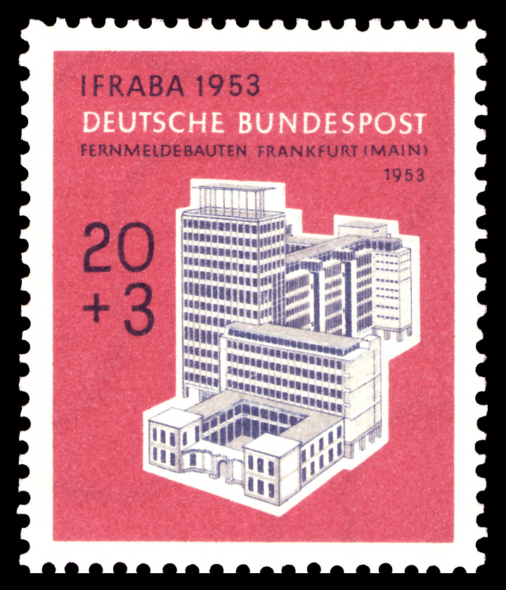 Stamp 1953, international stamp exhibition IFRABA, Frankfurt am Main Graphics by Walter Brudi Ausgabepreis: 20+3 Pfennig First Day of Issue / Erstausgabetag: 29. Juli 1953 Michel-Katalog-Nr: 172